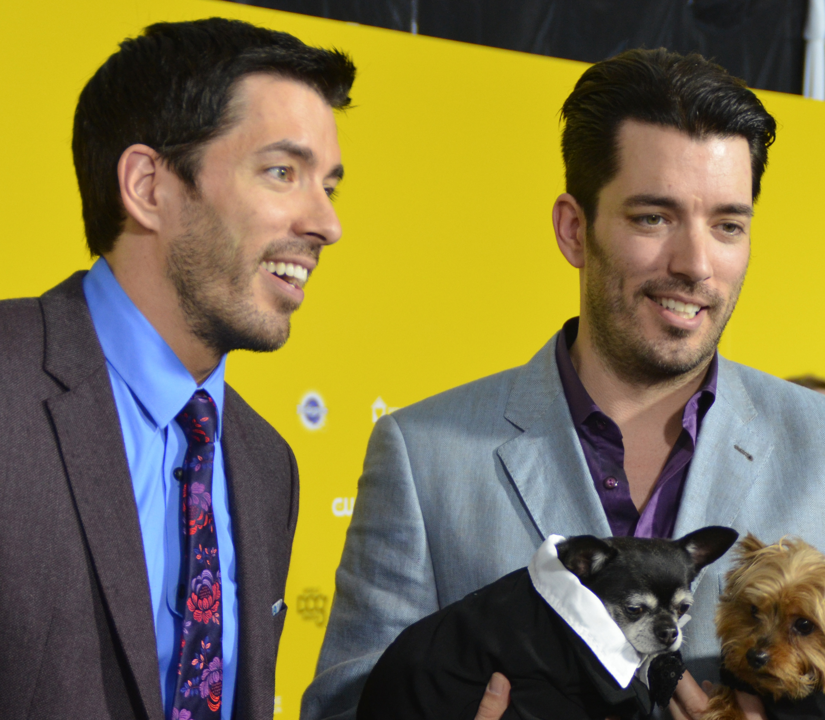 Drew Scott and Jonathan Scott at The World Dog Awards green carpet arrivals at Barkar Hanger in Santa Monica on January 10, 2015